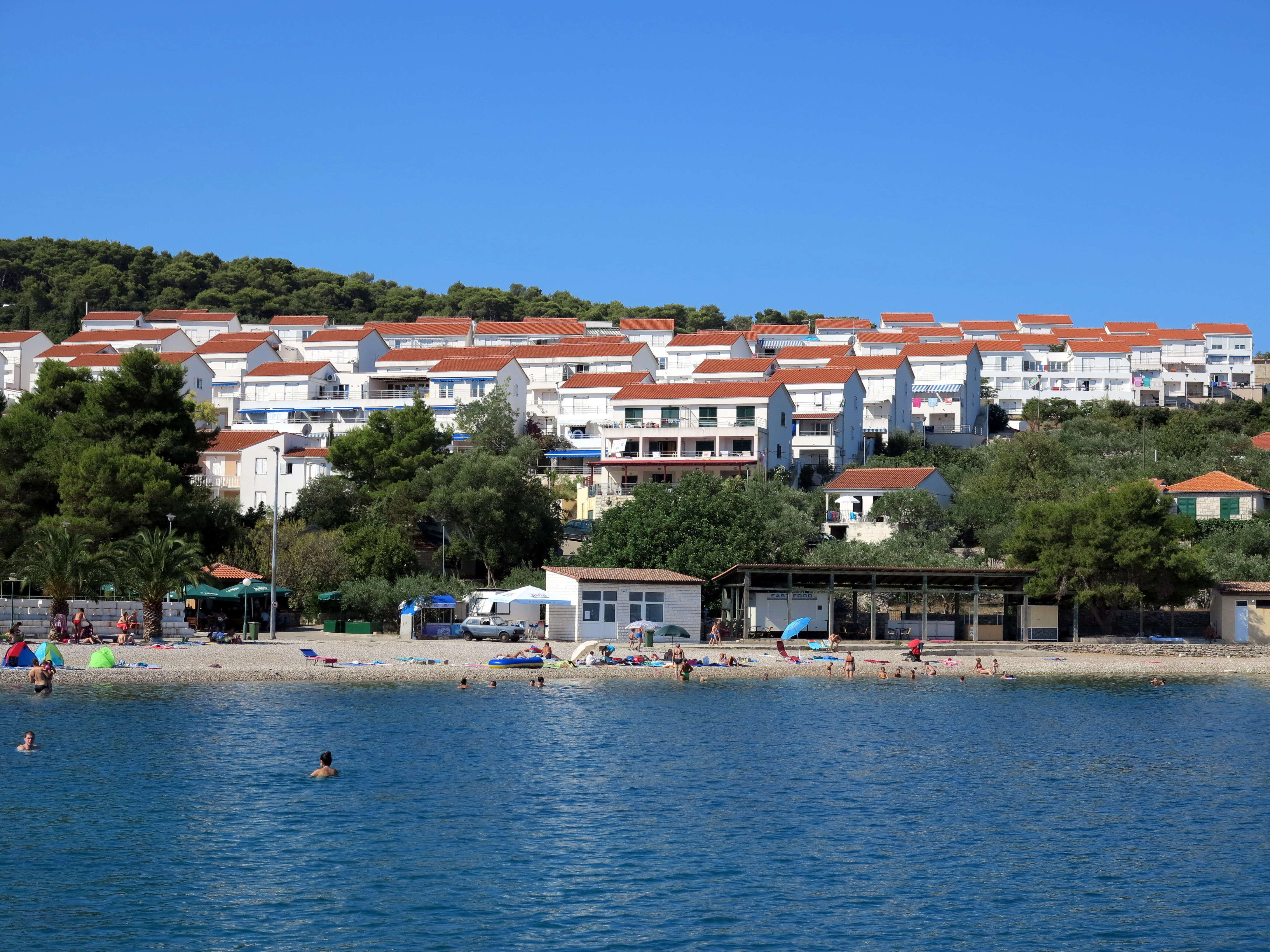 Apartment settlement in Nečujam / Šolta / Croatia / Adriatic Sea.